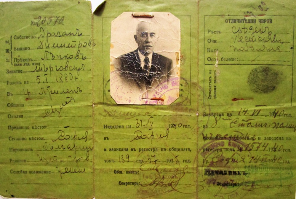 ID card of Dragan Tapkov.